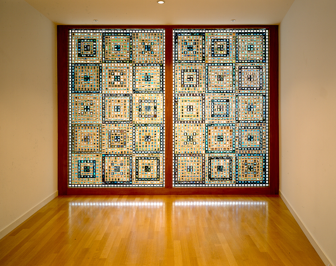 Title: Gemeinsame Erinnerungen (installation with 3000 slides in 2 windows)